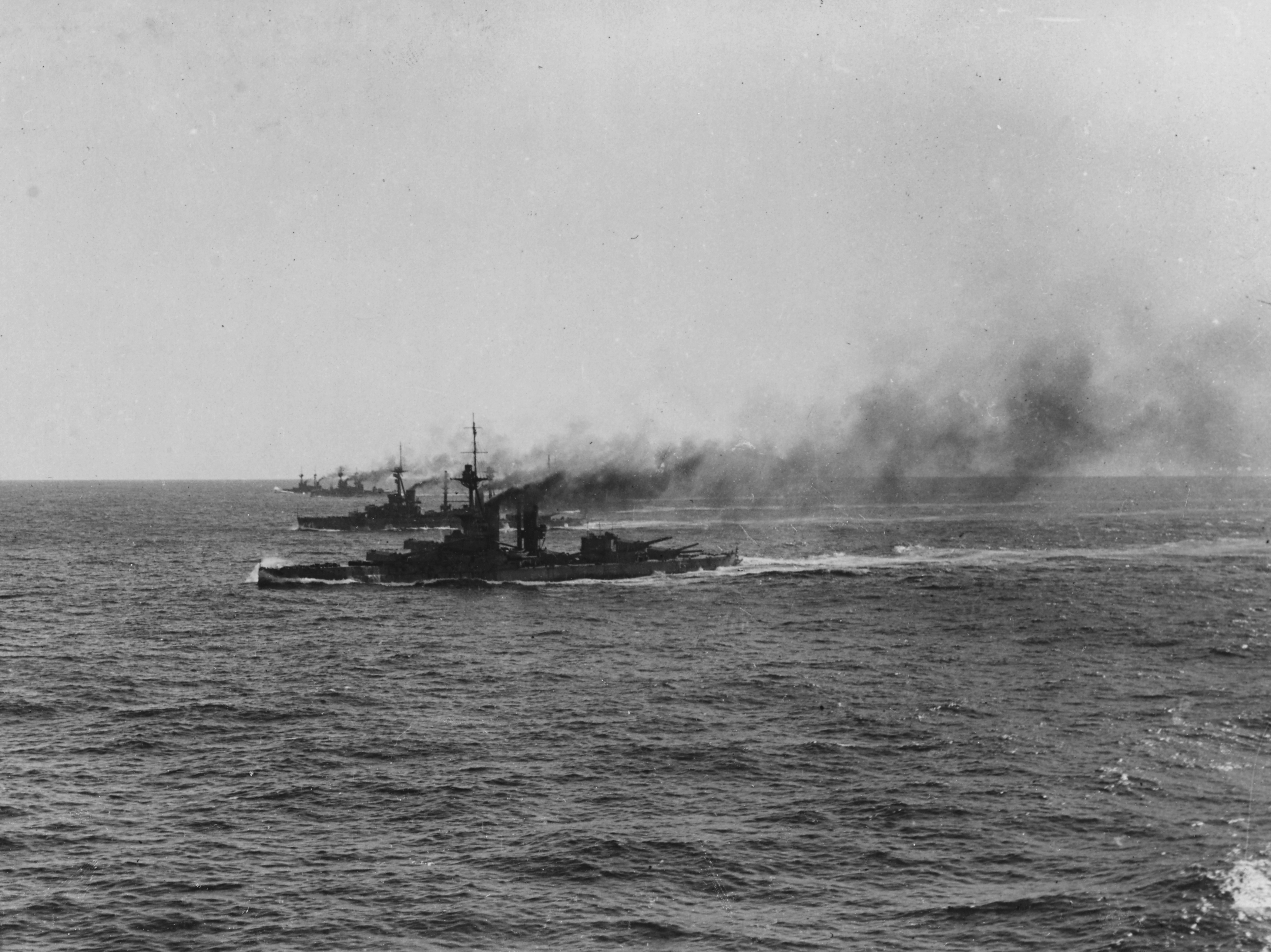 The British Fourth Battle Squadron steaming in line abreast formation in the North Sea, 1915. The ship nearest the camera is of the Iron Duke-class (probably either HMS Benbow or HMS Emperor of India). The second ship is HMS Agincourt. The two ships in the distance are (in no order): HMS Bellerophon and HMS Temeraire.